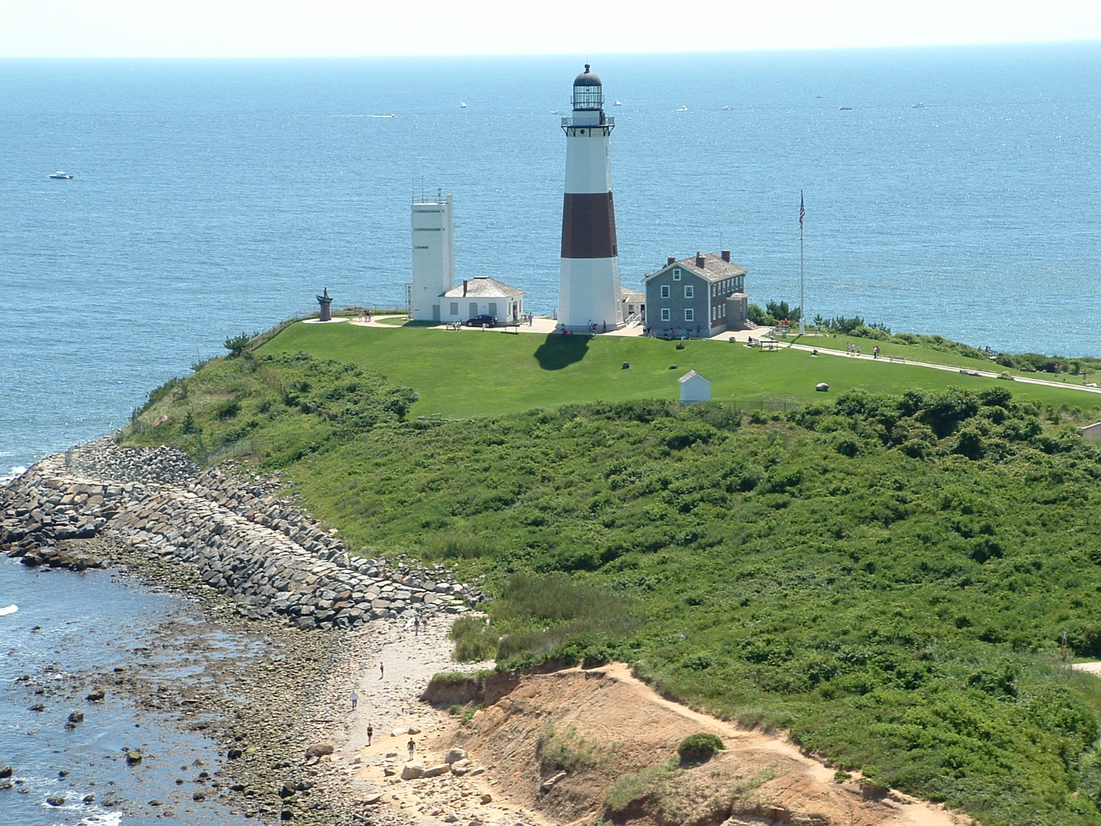 Montauk Point Lighthouse August 2008.